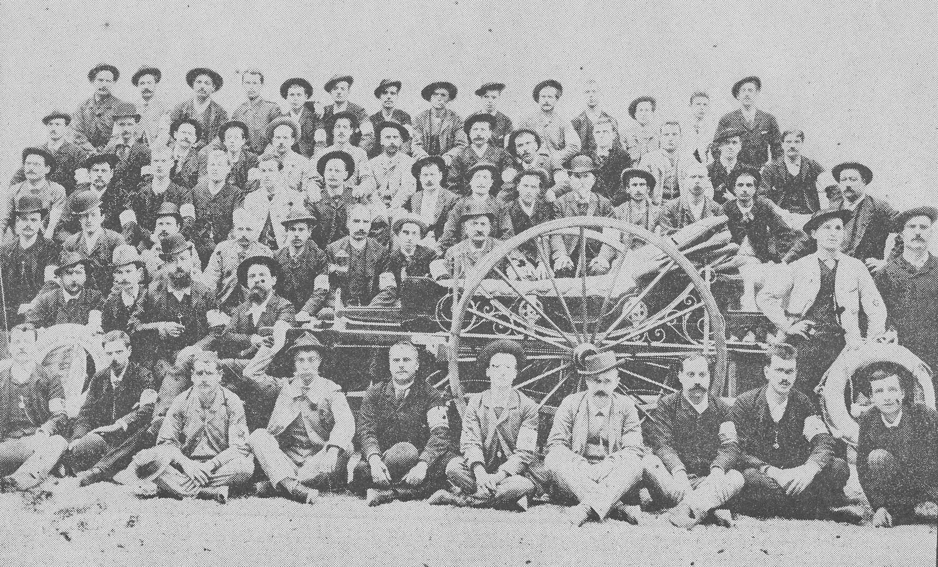 "Public Assistance" first group photo, Pisa, Tuscany, Italy.